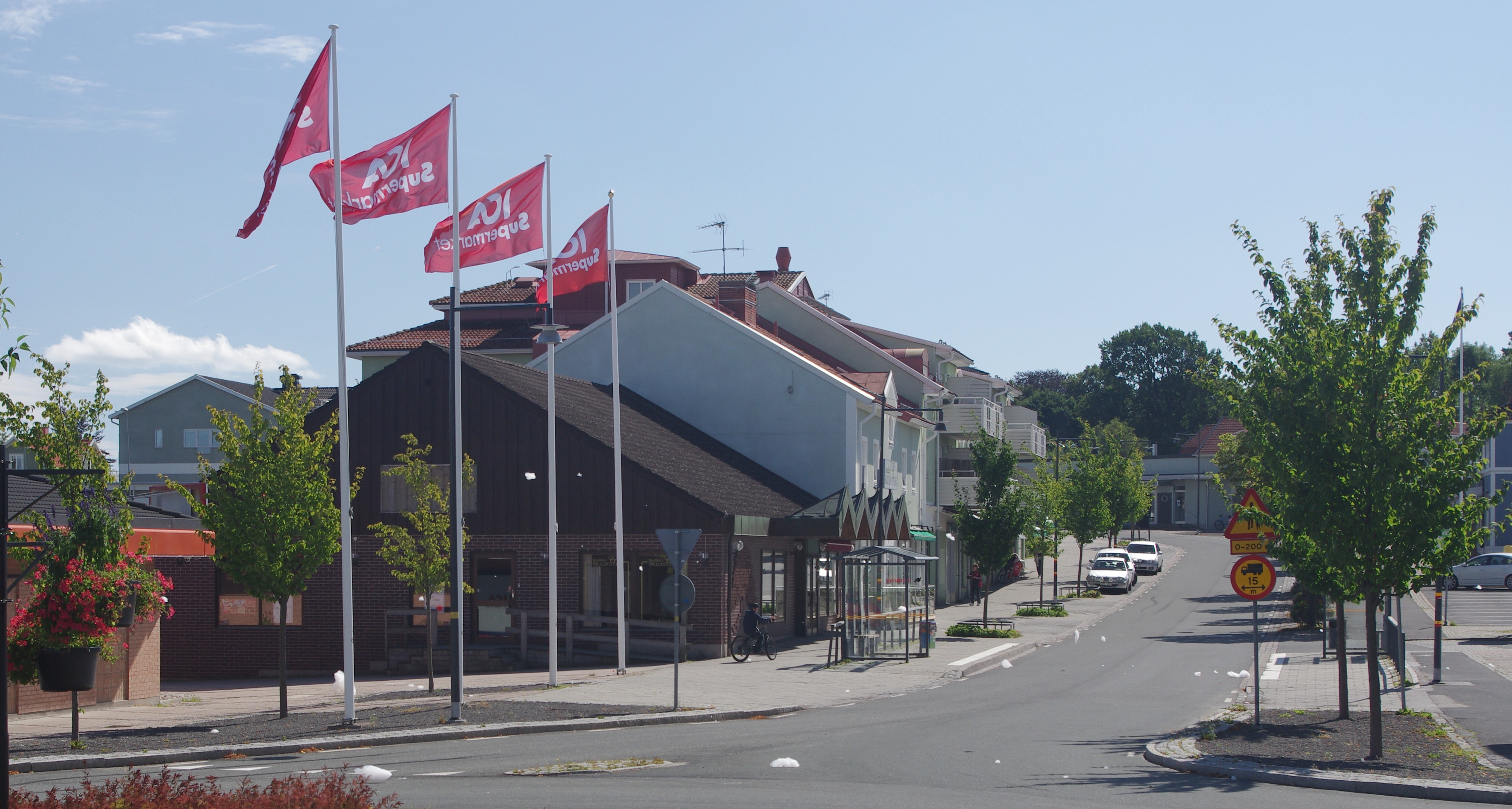 The small town Habo in Västergötland, Sweden.